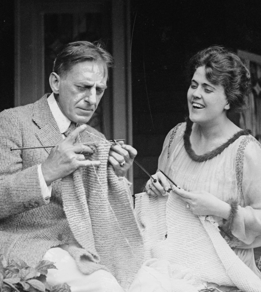 Comedy duo Mr. and Mrs. Sidney Drew